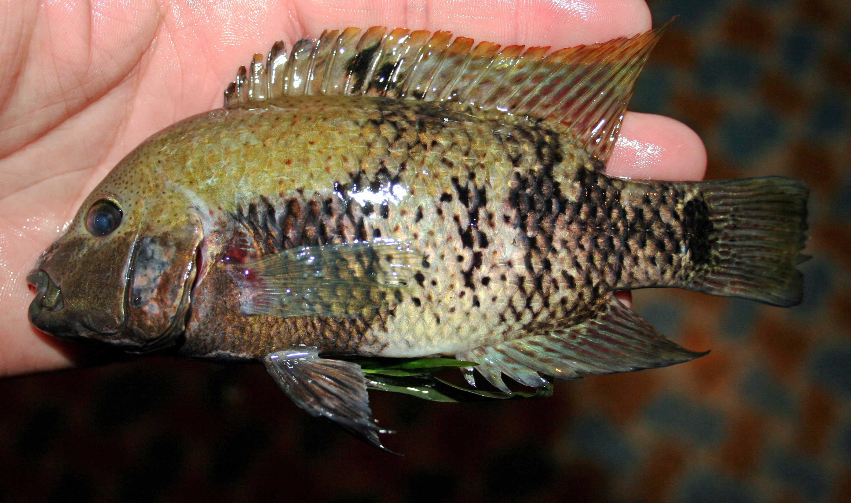 Nosferatu molango (De la Maza-Benignos and Lozano-Vilano, 2013), previously Herichthys molango; Atezca Cichlid from Laguna Atezca, Molango, Hidalgo, Mexico